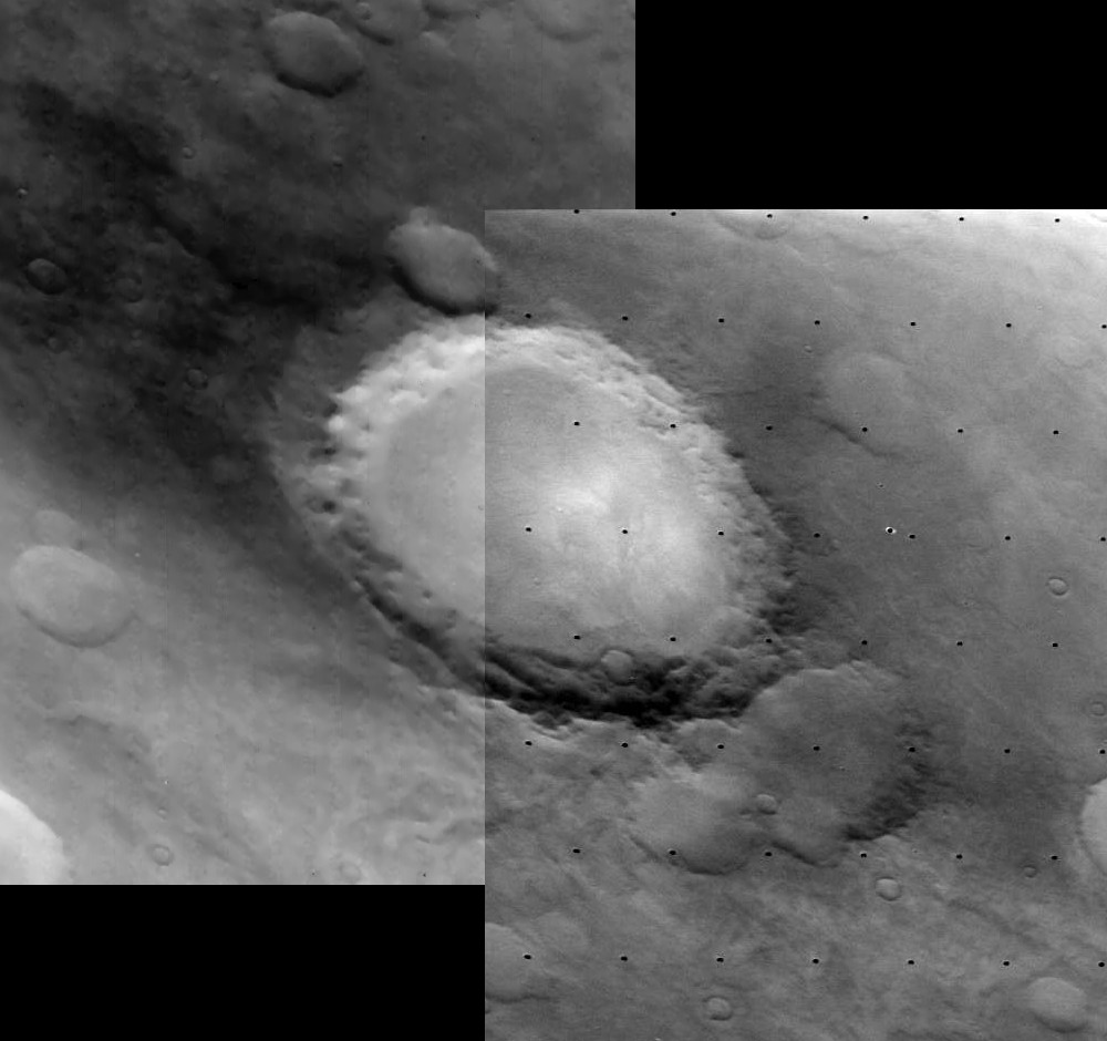 Oblique view of Kuiper crater on Mars. Mosaic of two Viking 2 images from camera A and B (516B38 and 516B59). Minus Blue filter was used for these images. The image from the B camera, with better resolution and quality, is in lower right. The image from the A camera is despeckled and enlarged slightly to match the B camera image. Overall resolution is approximately 133 m/pixel. Emission Angle: 39-45 Incidence Angle: 72 Latitude: -57.7 Longitude: 203 Phase Angle: 107-111